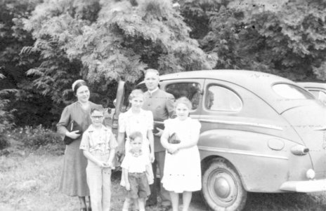 Caption: July 17. 1949. Bergton, West Virginia. Ray Emswiler and family. Ray is pastor of the Valley View Church. He is school teacher. Mrs. Emswiler was Emma Garber of Elizabethtown, Pa. Children - David, Esther, Irene, Frankie. Citation: Mennonite Community Photographs, 1947-1953. Families. HM4-134 Box 2 Photo 172.2-2. Mennonite Church USA Archives - Goshen. Goshen, Indiana.